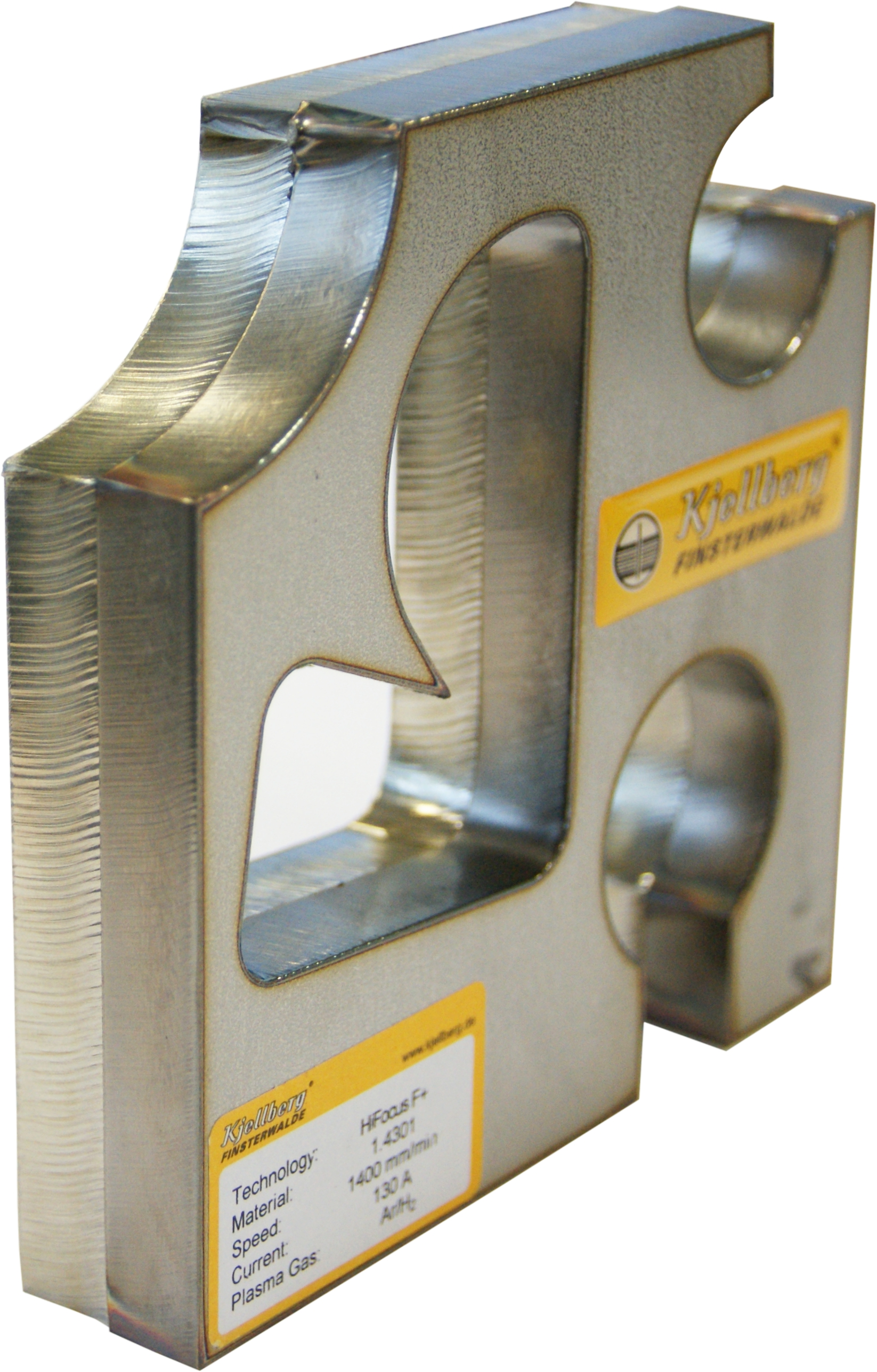 Comparison: Underwater and dry plasma cutting (stainless steel 10 mm)